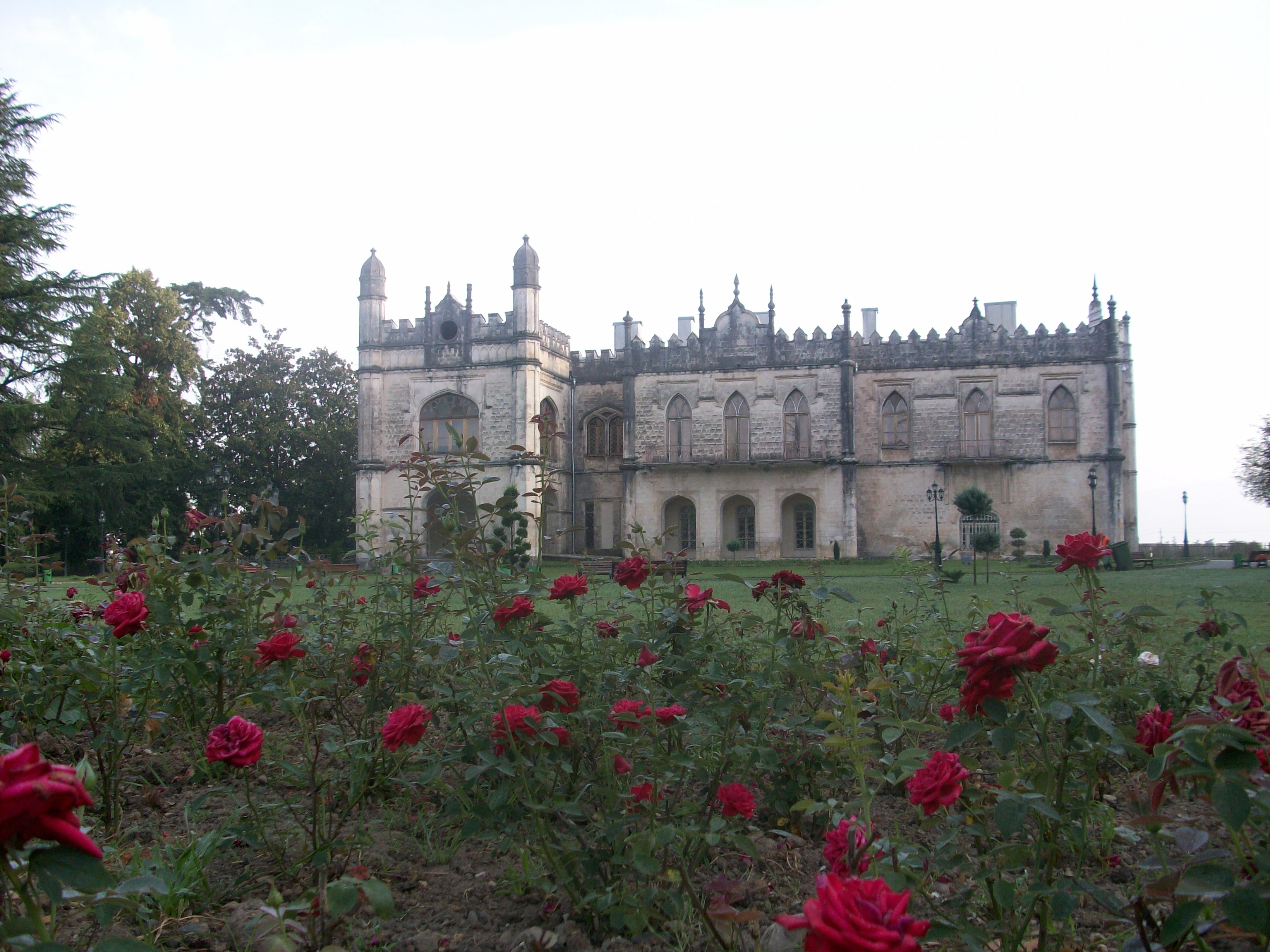 Palace Dadiani – residence of the rulers of the genus Dadiani in the Georgian town of Zugdidi.